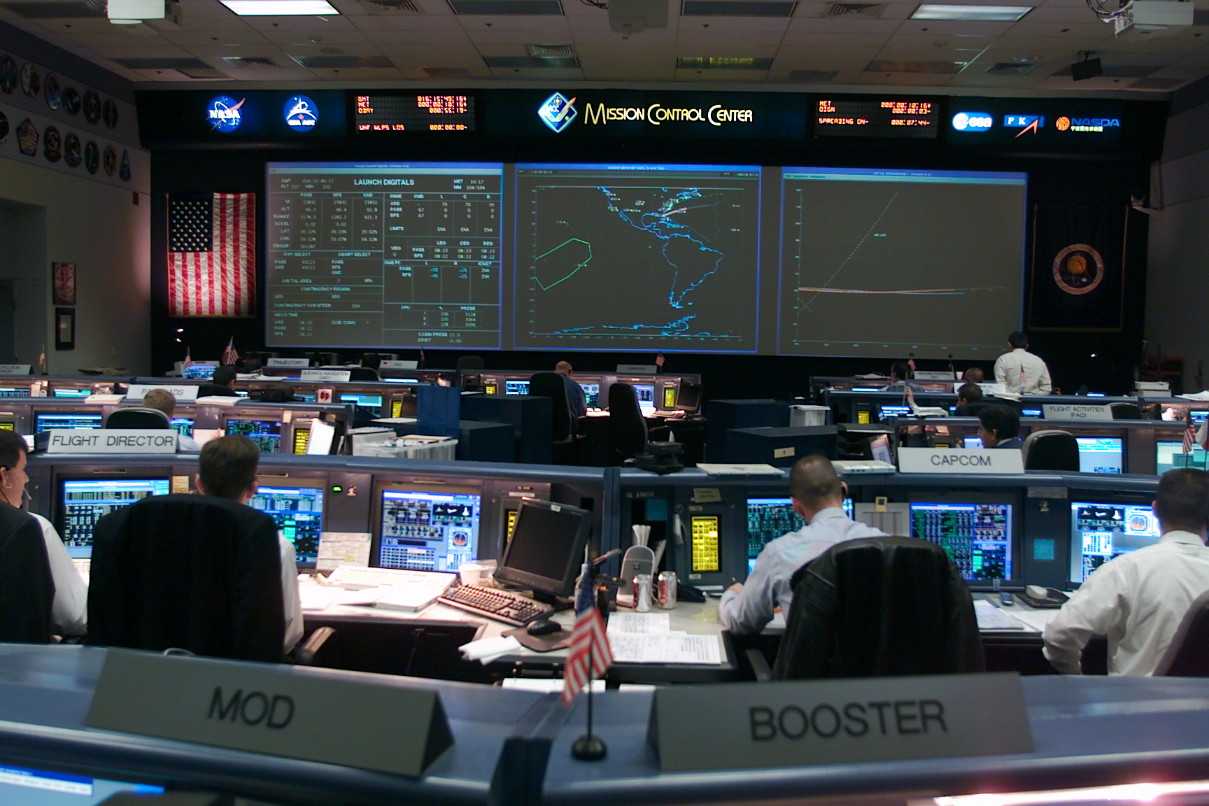 An overall view of the shuttle flight control room (WFCR) in Houston's Mission Control Center (MCC). At the time this photo was taken the Space Shuttle Columbia was about to launch at the Kennedy Space Center, Florida. Columbia launched at 9:39 a.m. (CST) on January 16, 2003. Once the vehicle cleared the tower in Florida, the Houston-based team of flight controllers took over the ground control of the STS-107 flight.